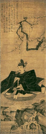 Tenjin, Furukuma Jinja, Yamaguchi, Yamaguchi, Japan